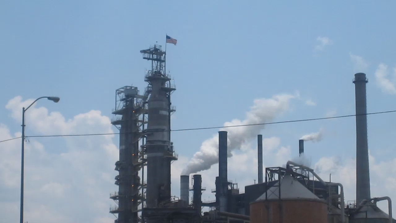 Container_plant_in_Hodge,_LA_(a former paper mill)